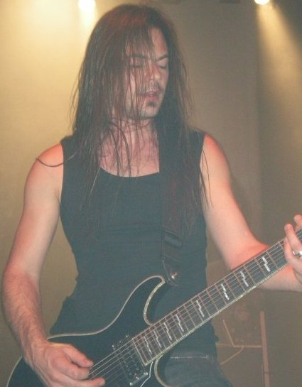 Isaac Delahaye. Photo taken by me during a concert (MFVF 2009)